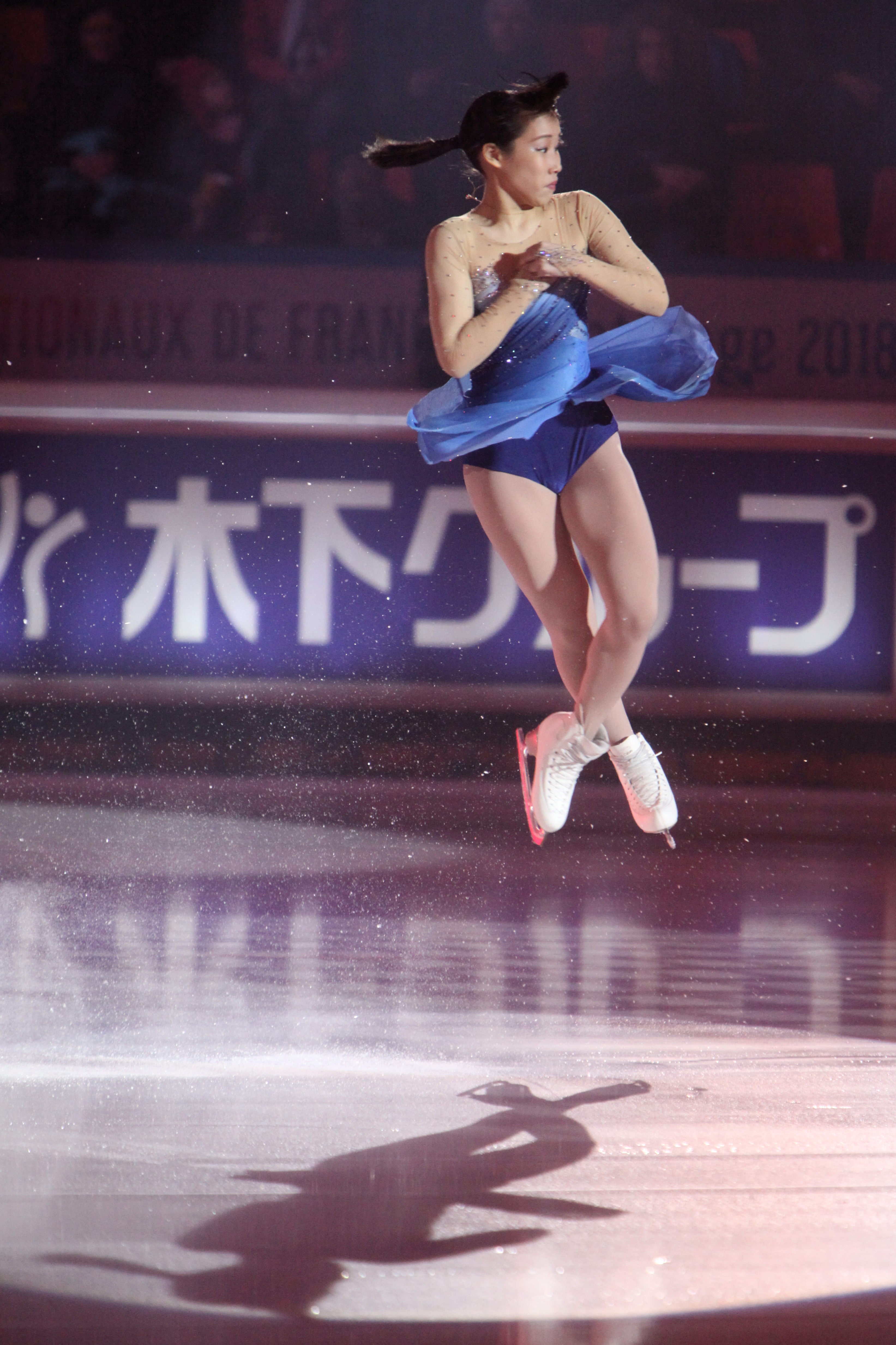 Mai Mihara during the gala at the Internationaux de France de Patinage 2018.